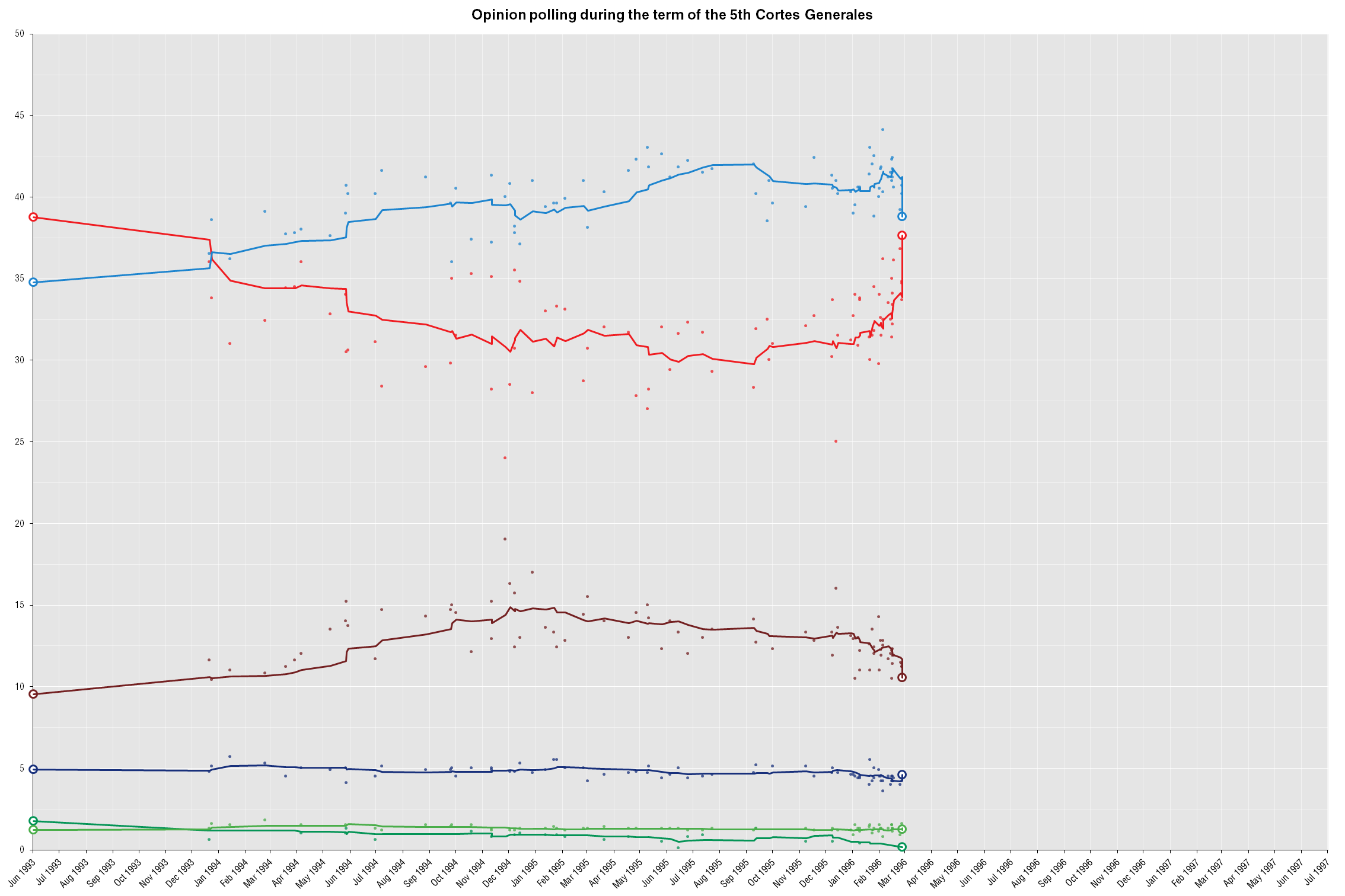 10-point average trend line of poll results from 6 June 1993 to 3 March 1996, with each line corresponding to a political party. PSOE PP IU CiU CDS PNV